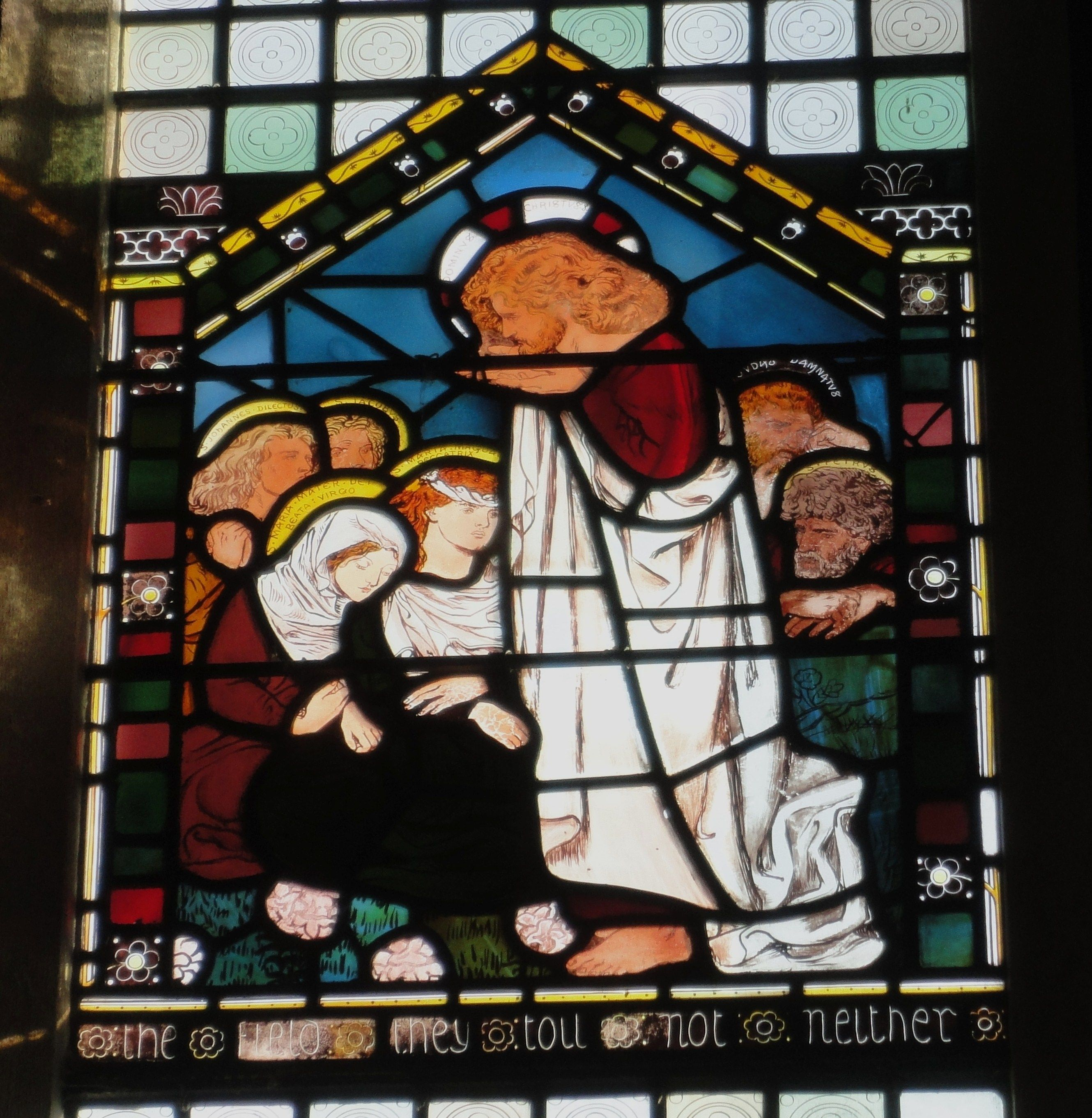 All Saints, Selsley, Gloucestershire ... red headed Christ. (see Rossetti Archive)